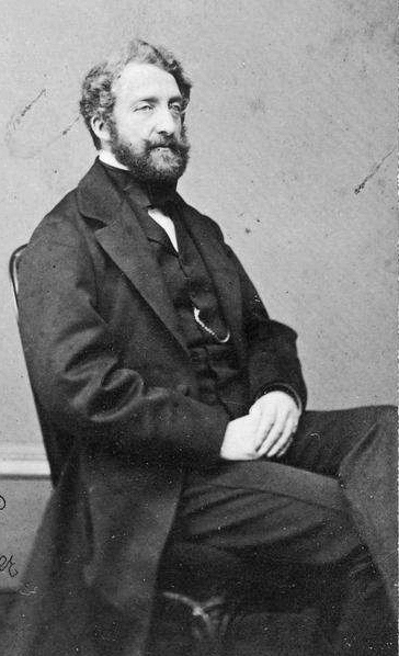 Louis, Duke of Nemours